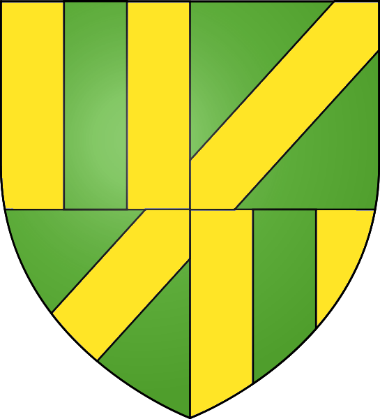 Coat of arms of Pouancé (actual)